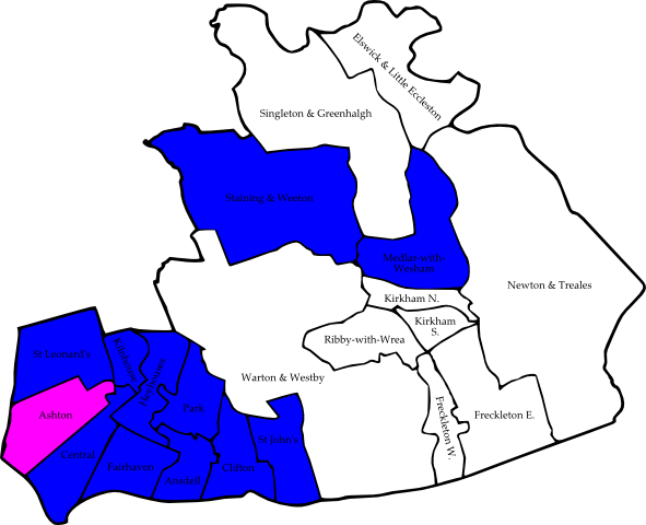 A map of the results of the 2007 Fylde Council election. Colour legend by wards won: Conservative party Independent Ratepayer